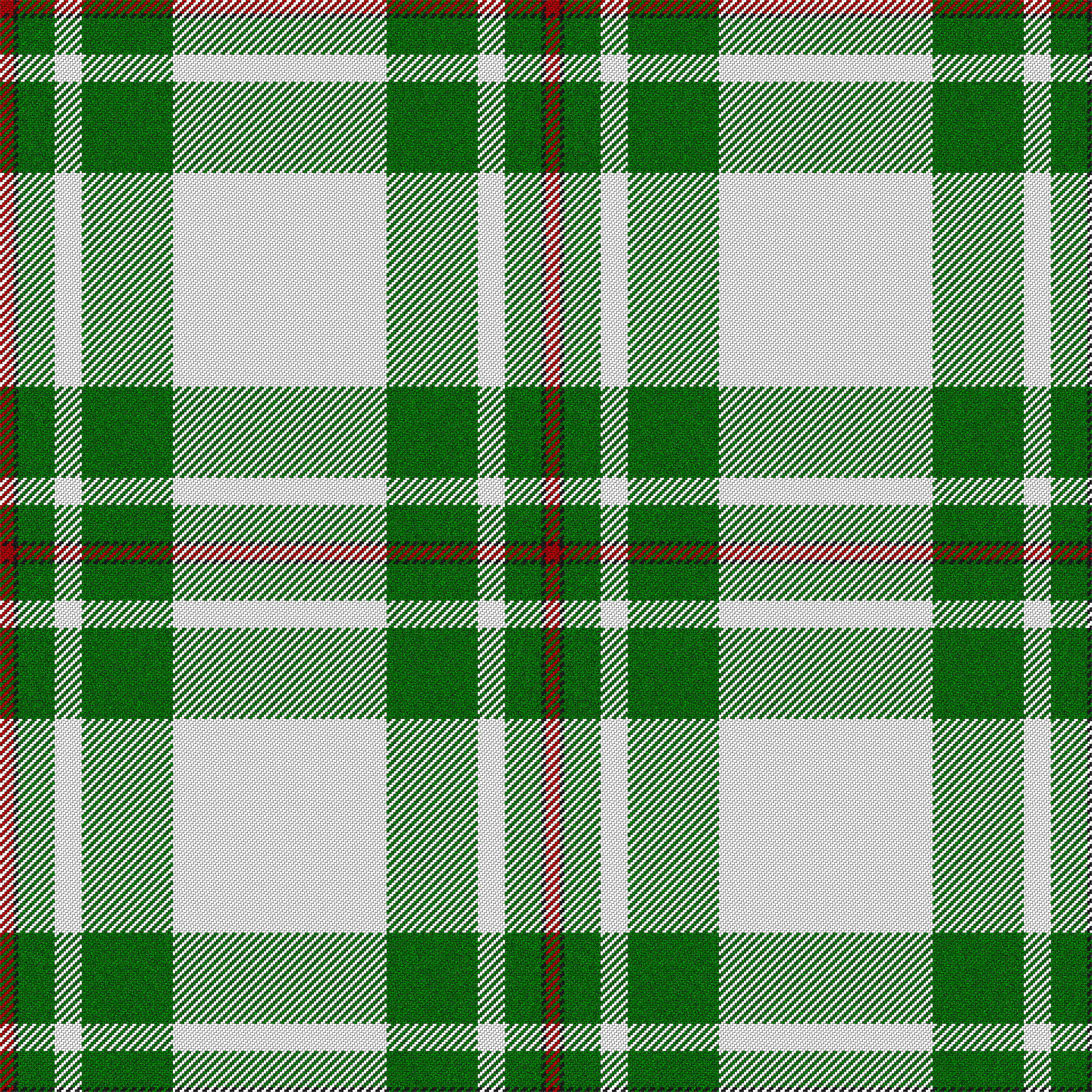 A digital representation of the MacGregor Green tartan. The thread count used for this image is red6, black-2, green-16, white-12, green-40, white-94.